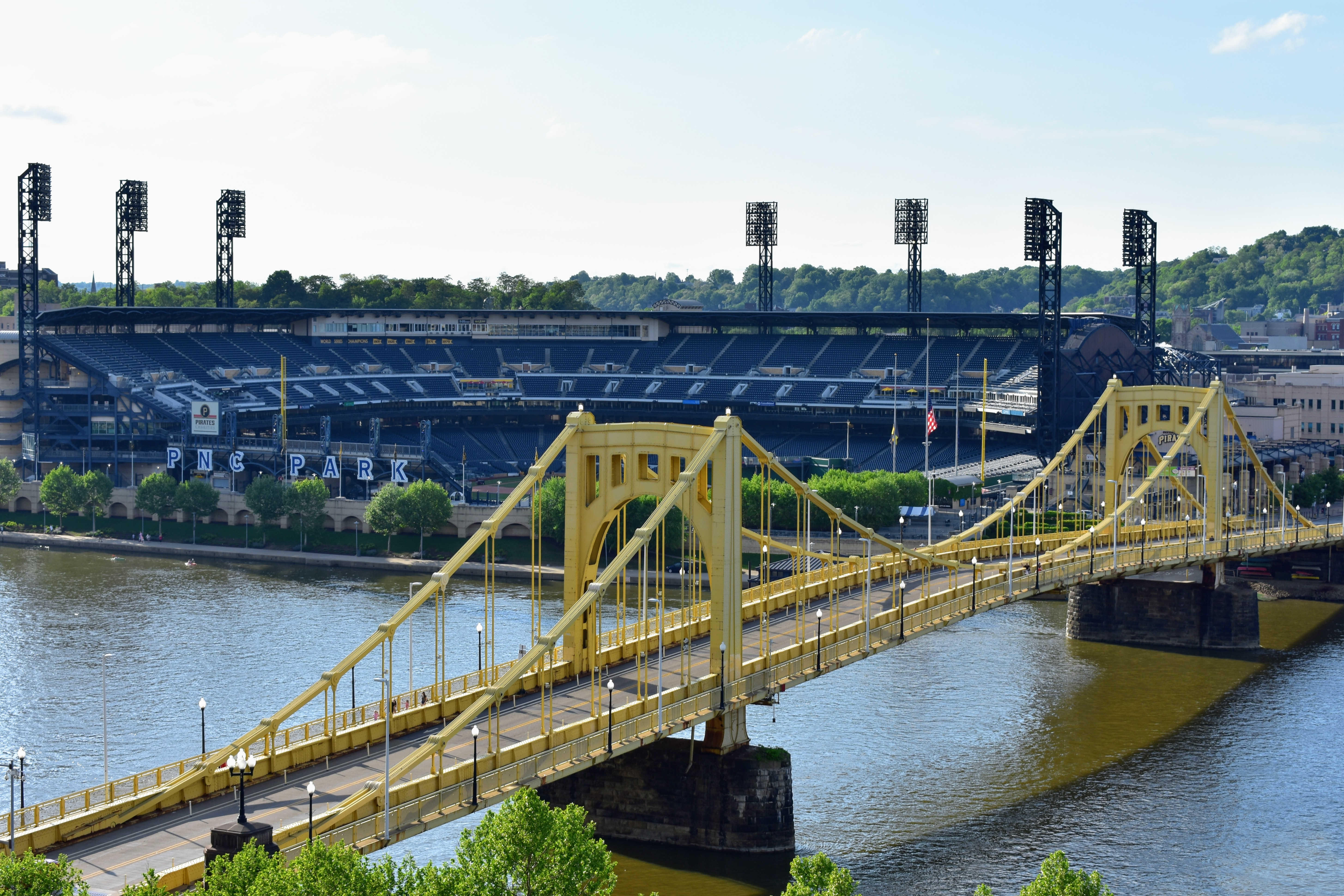 A view of PNC Park and the Roberto Clemente Bridge along the Allegheny River-front, as seen from the Theater Square Garage rooftop